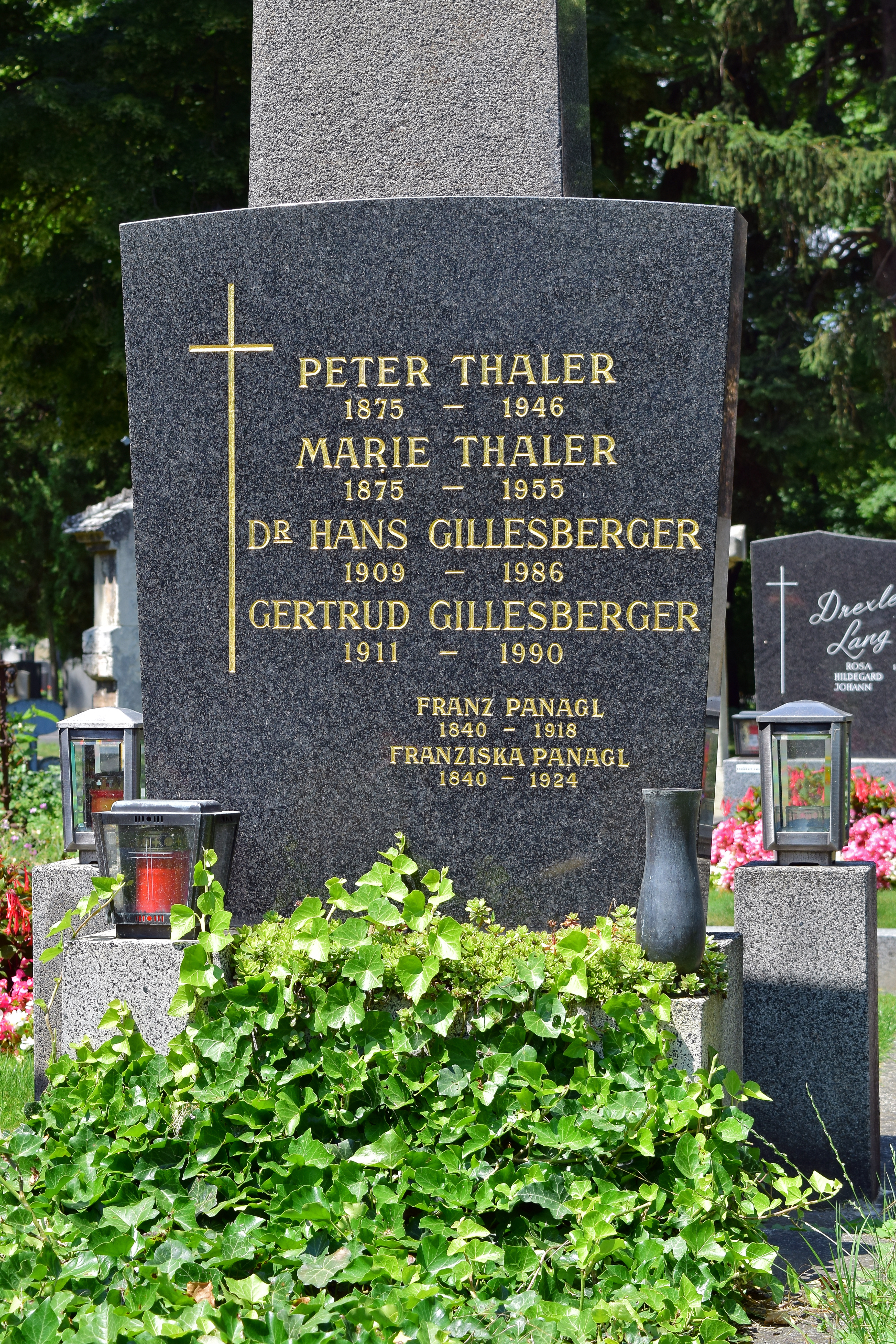 Grave of honor of Hans Gillesberger at the Wiener Zentralfriedhof